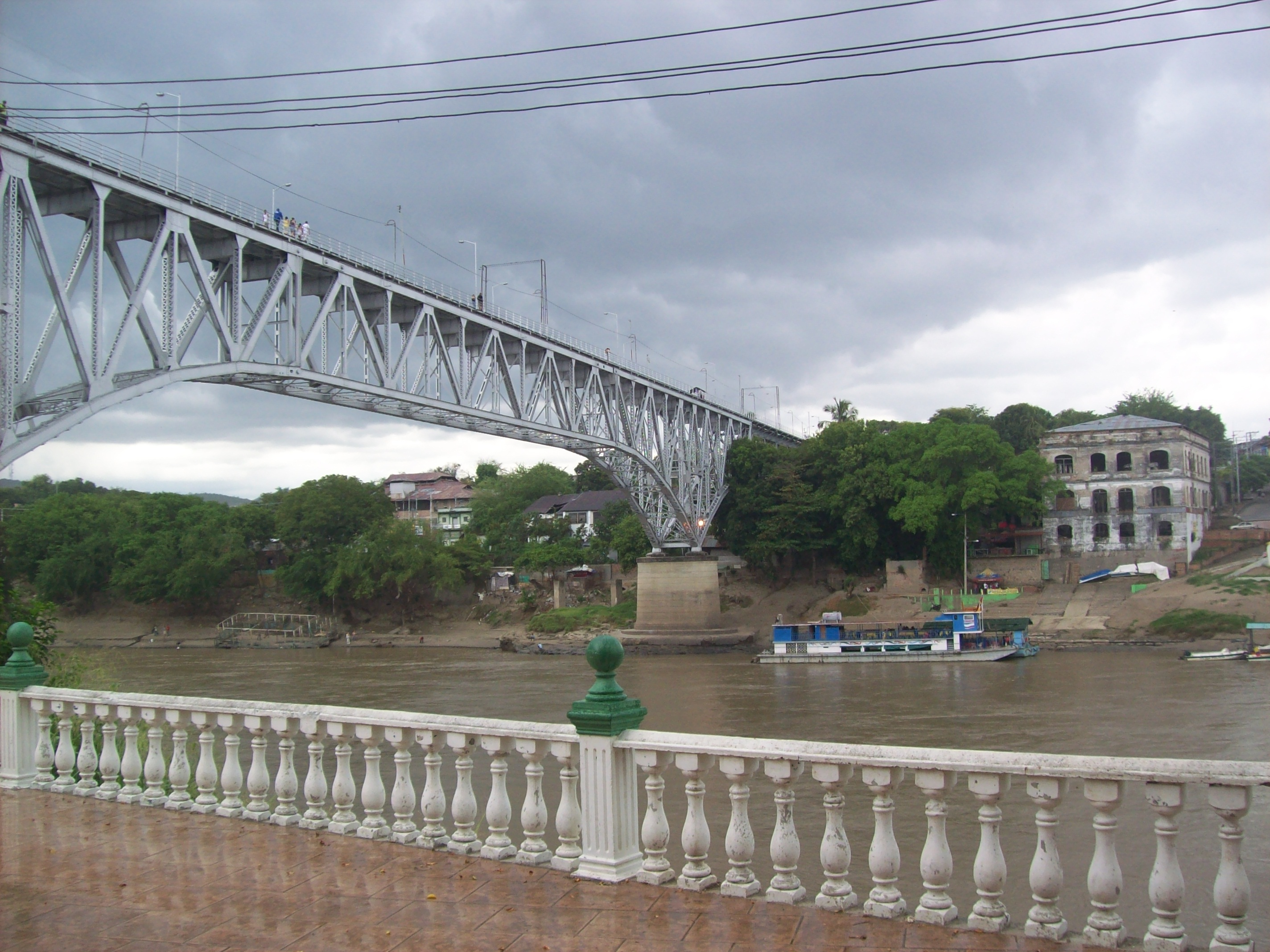 Bridge over the Magdalena river between Girardot and Flandes (Colombia).